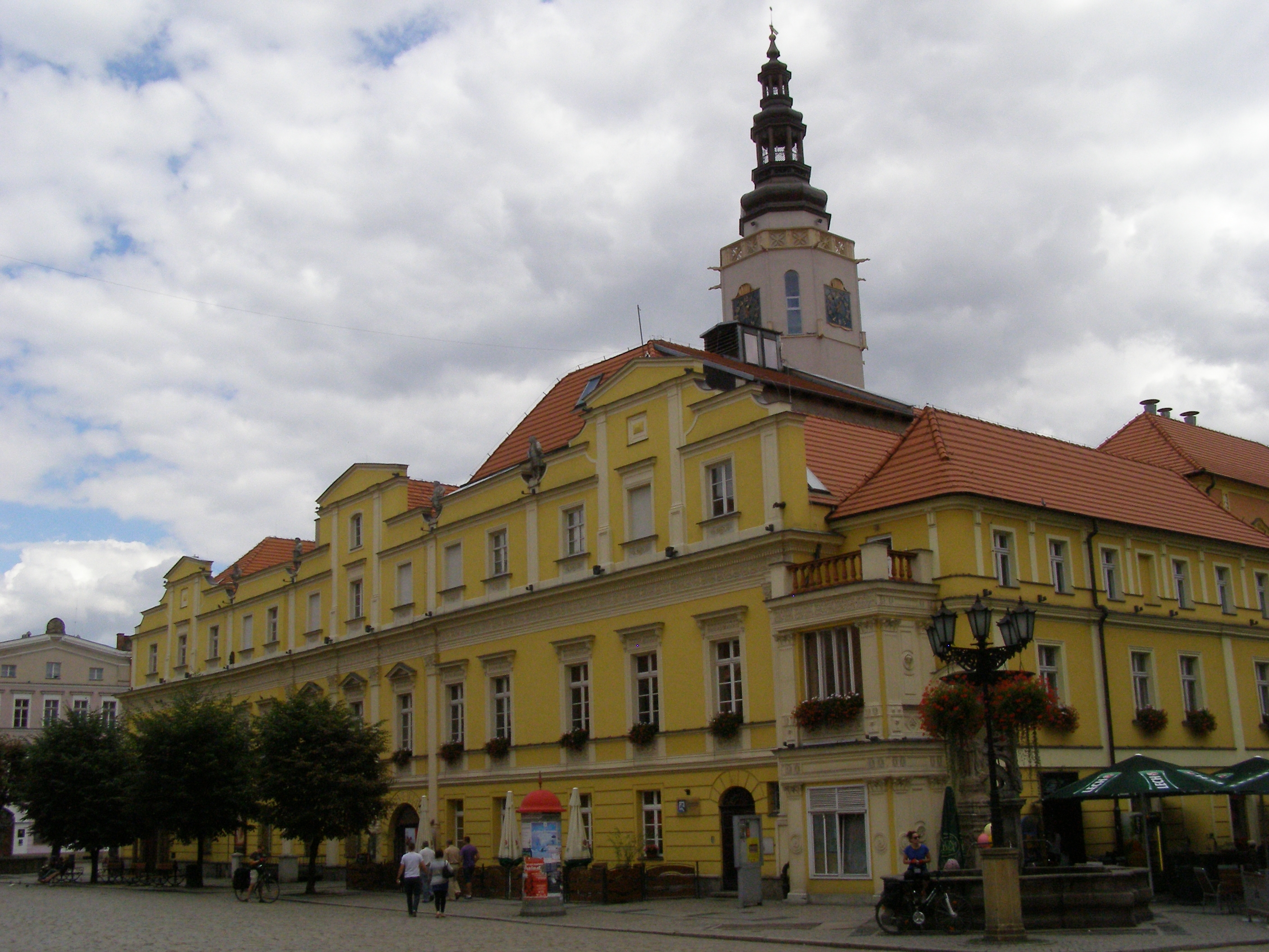 Świdnica - town hall